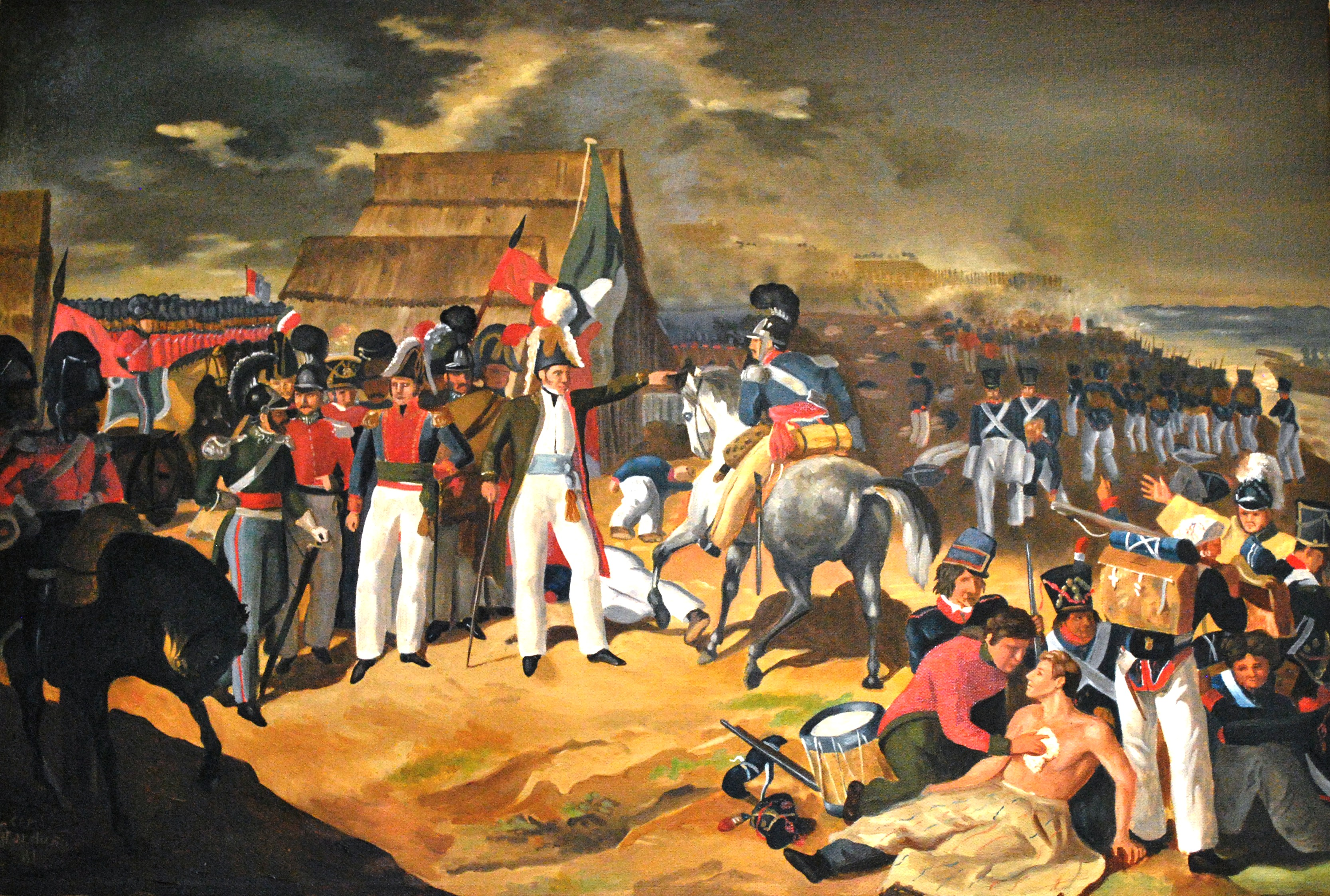 "Accion militar en Pueblo Viejo, Septiembre de 1829" — painting by Carlos Paris, in 1835. On display at the Museo Nacional de las Intervenciones (ex Monastery of Churubusco), in the Coyoacan borough, Mexico City, Mexico.